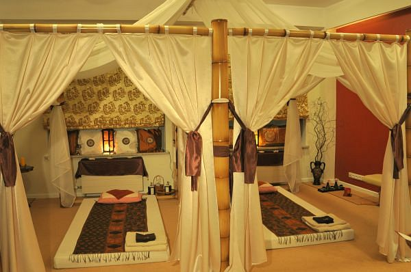 Thai massage cabinet